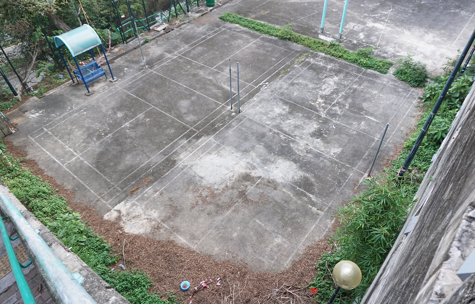 Hing Man Estate in Chai Wan, Hong Kong.